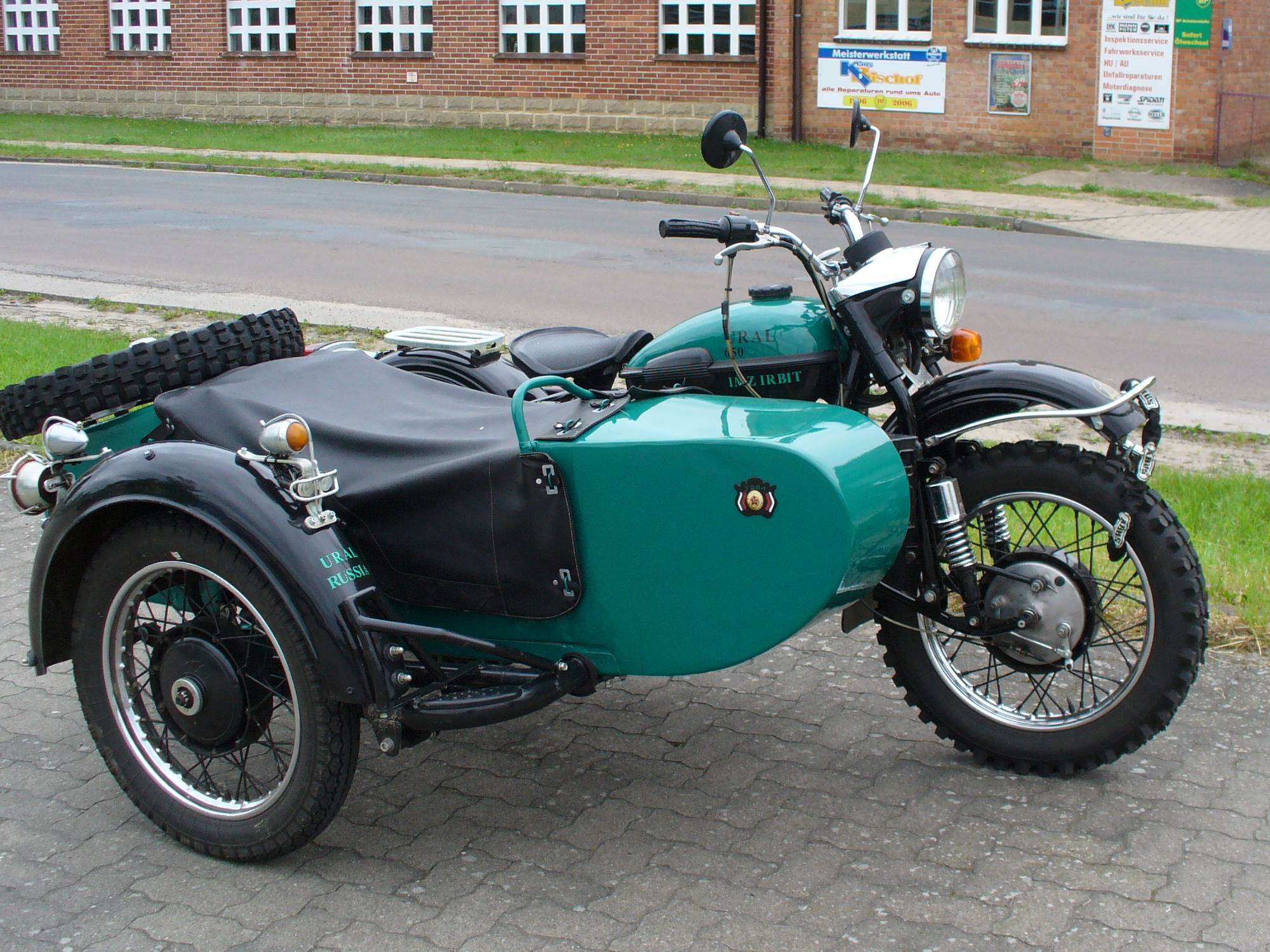 Russian motorcycle Ural IMZ 650